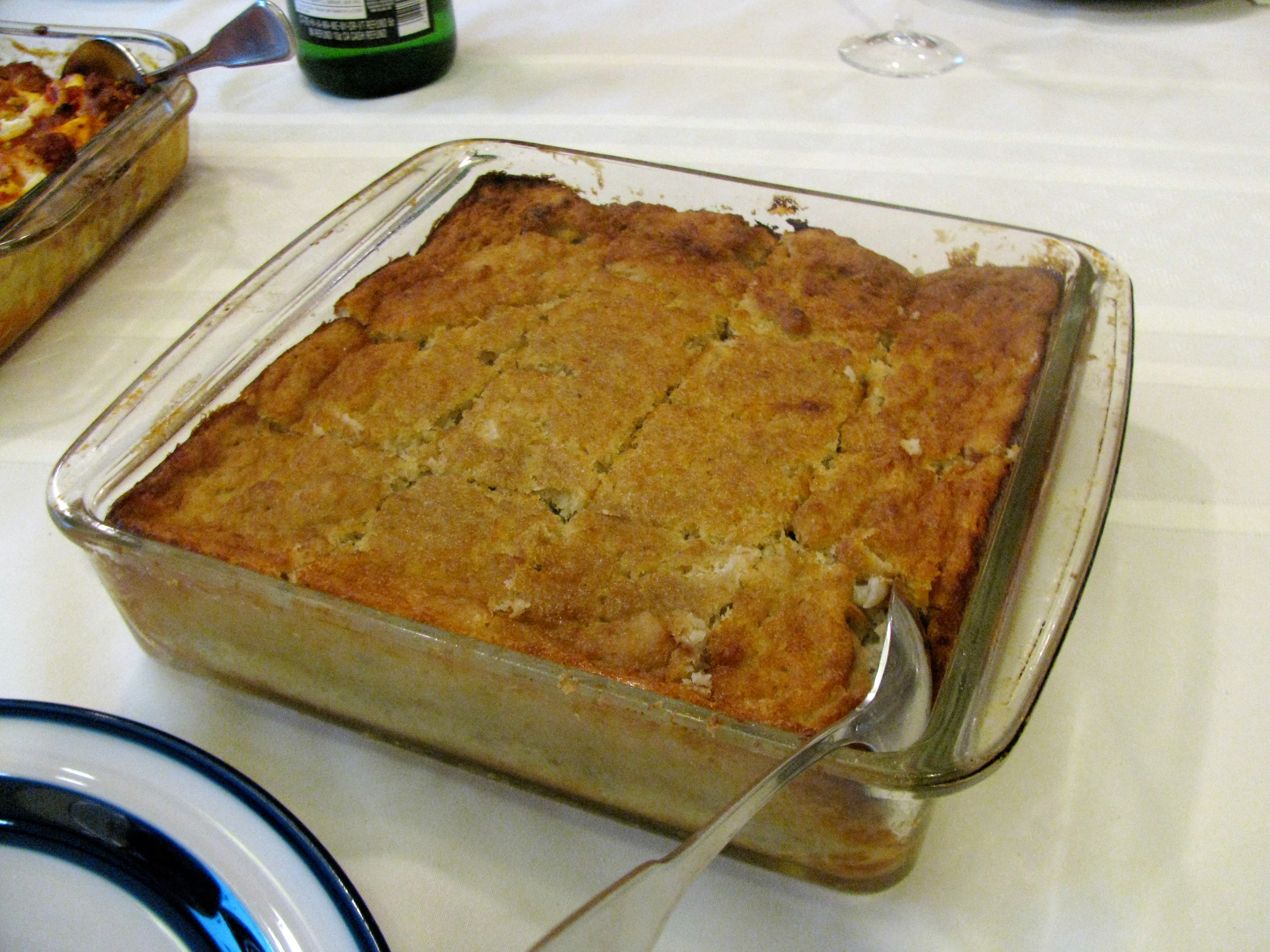 Ted made this potato-based Lithuanian delicacy for New Year's dinner.